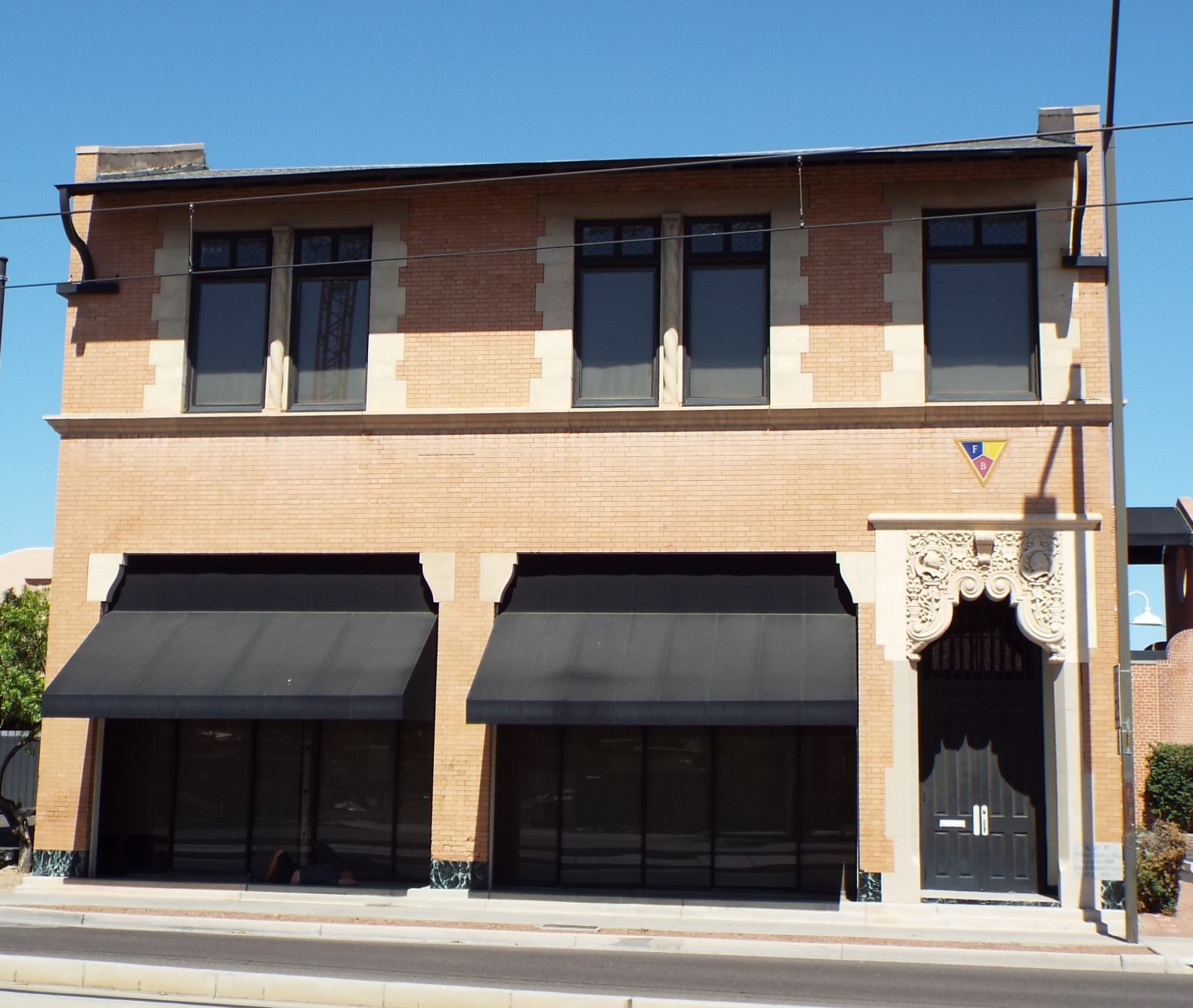 Knights of Pythias Building built in 1928 and located in 146 E. Washington St. Phoenix, Az.Listed in the National Register of Historic Places. Reference number 85002063